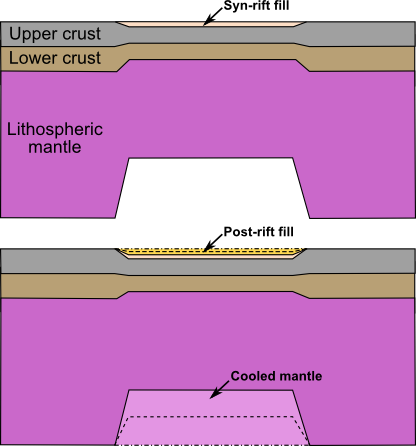 Cartoon representation of the Mckenzie model of continental rifting, showing state at end of rifting and at end of post-rift subsidence